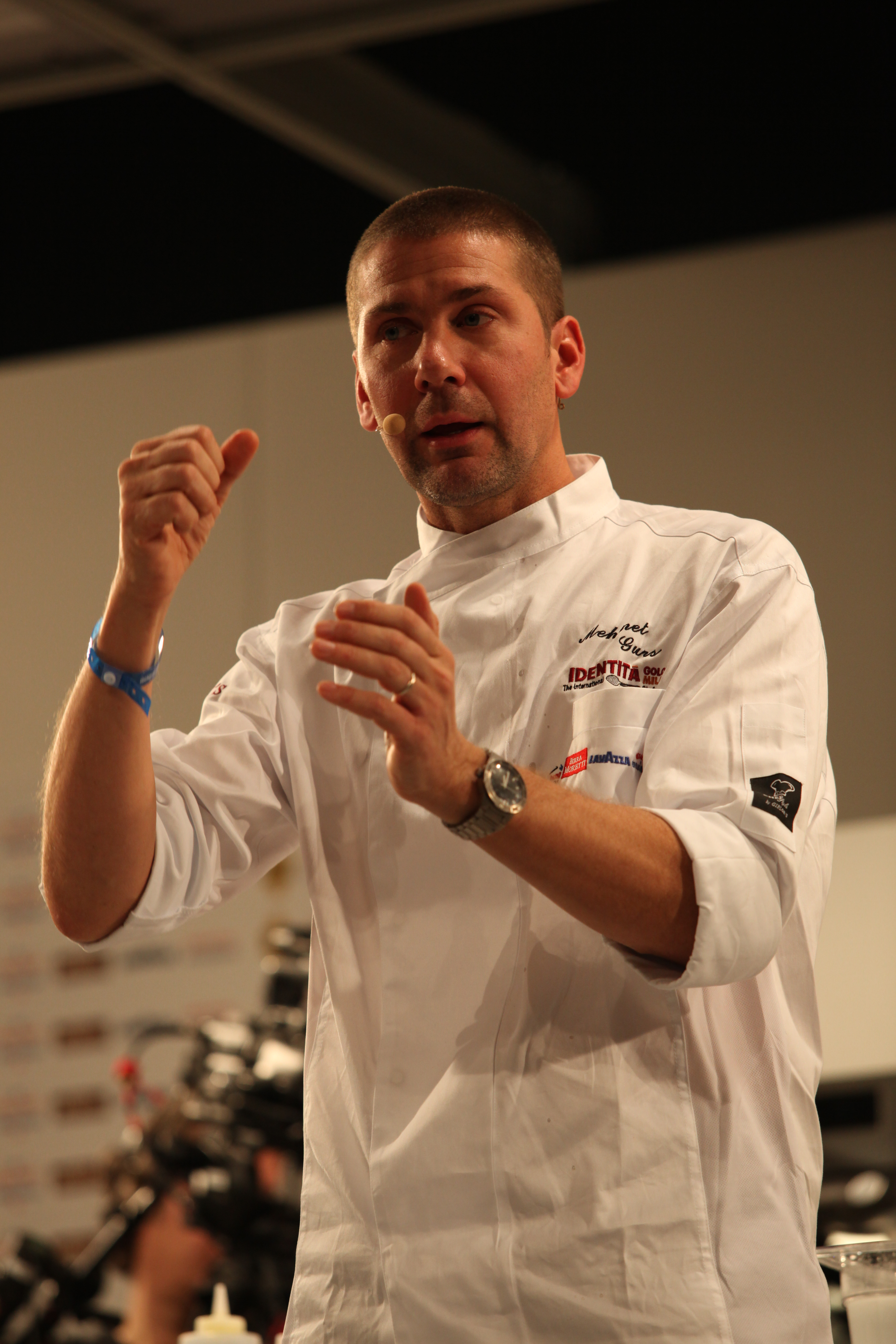 Finish-Turkish celebrity chef Mehmet Gürs.